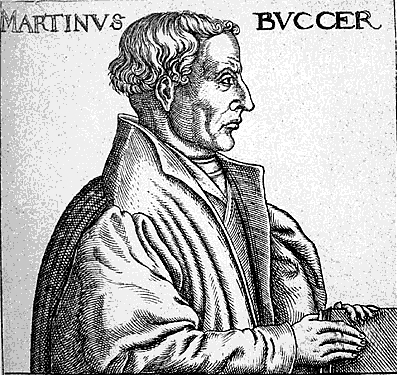 Woodcut of Martin Bucer.